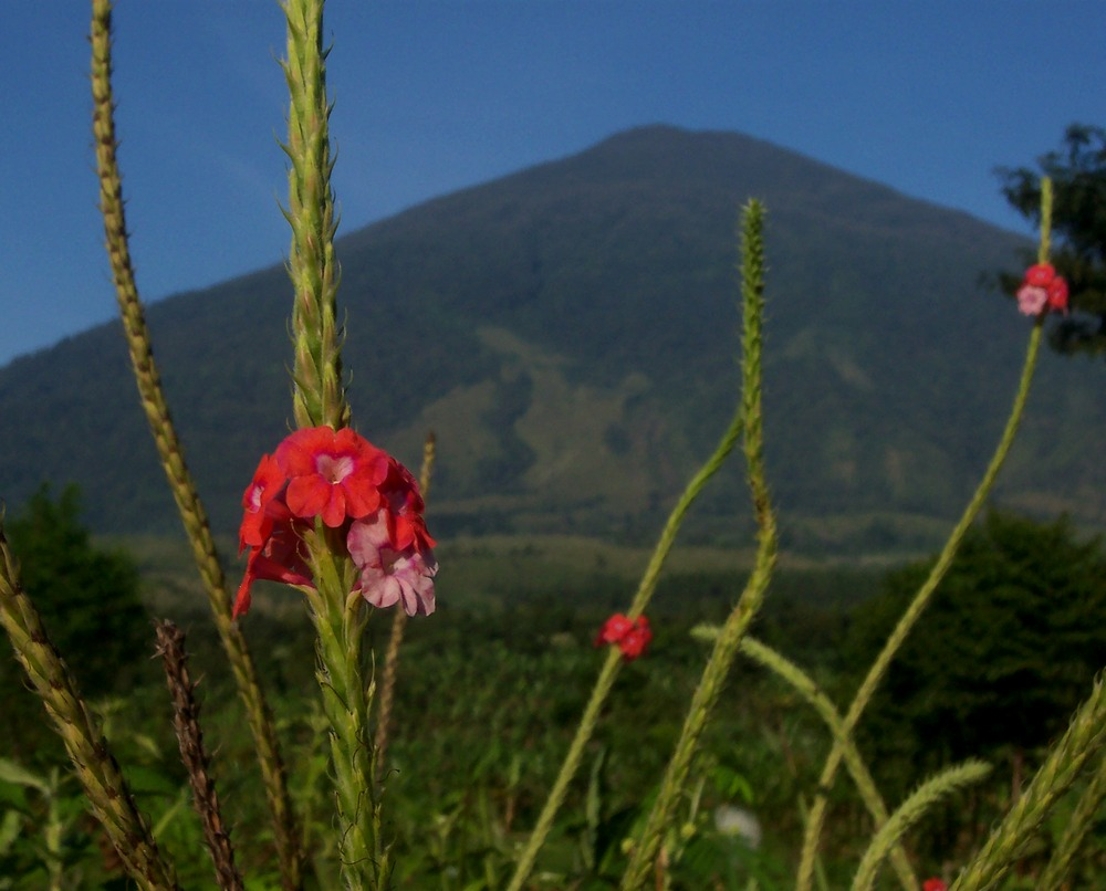 Ceremai mountain, photographed from Trijaya village, Kuningan, West Java